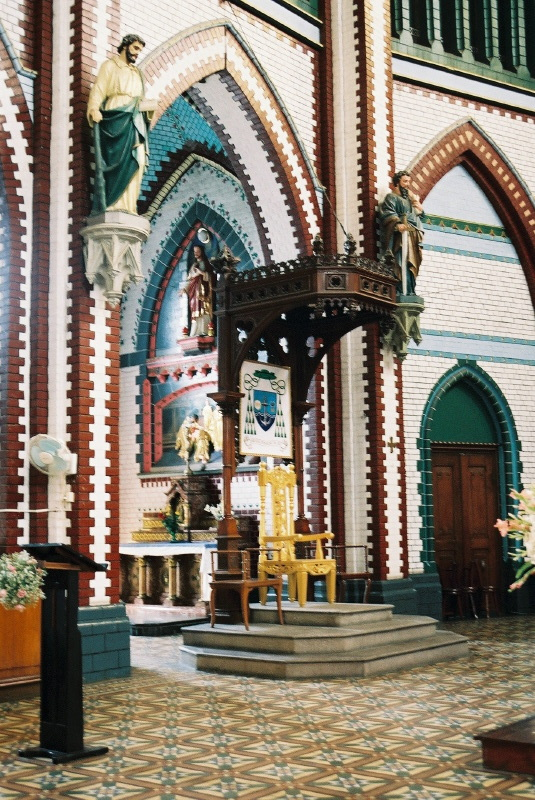 Inside St Mary's Cathedral, Yangon, Myanmar.